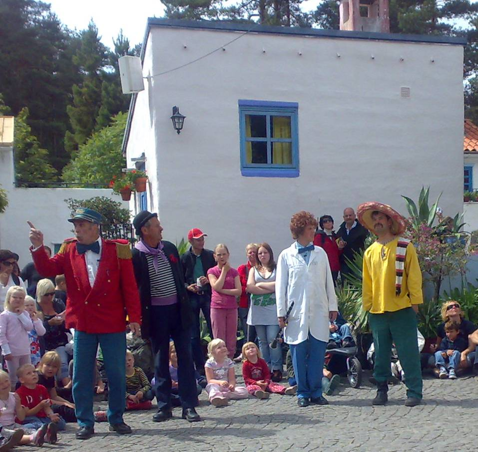 Kardemomme By, folk og røvere i kardemomme by